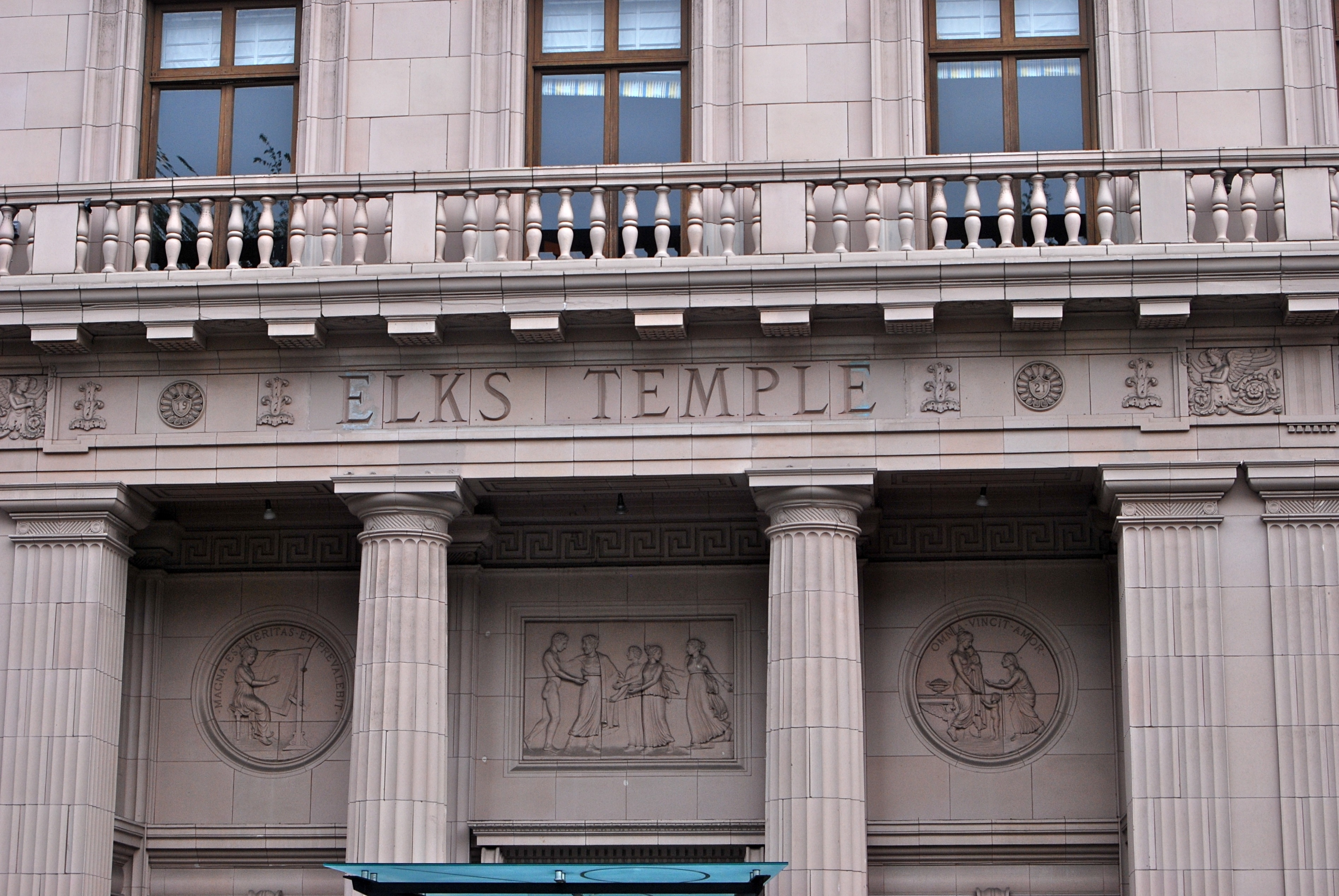 The entablature above the entrance to the Sentinel Hotel, in Portland, Oregon, in 2015. The 1923 building facing SW 11th Avenue was originally the Elks Temple, and is listed on the U.S. National Register of Historic Places under that name. In the mid-1980s, it became the Princeton Building and the "Elks Temple" signage shown here was covered up by a "Princeton" sign (made in the same style), which remained on the façade until 2014. New owners removed the "Princeton" signage, thereby restoring the original "Elks Temple" letering.